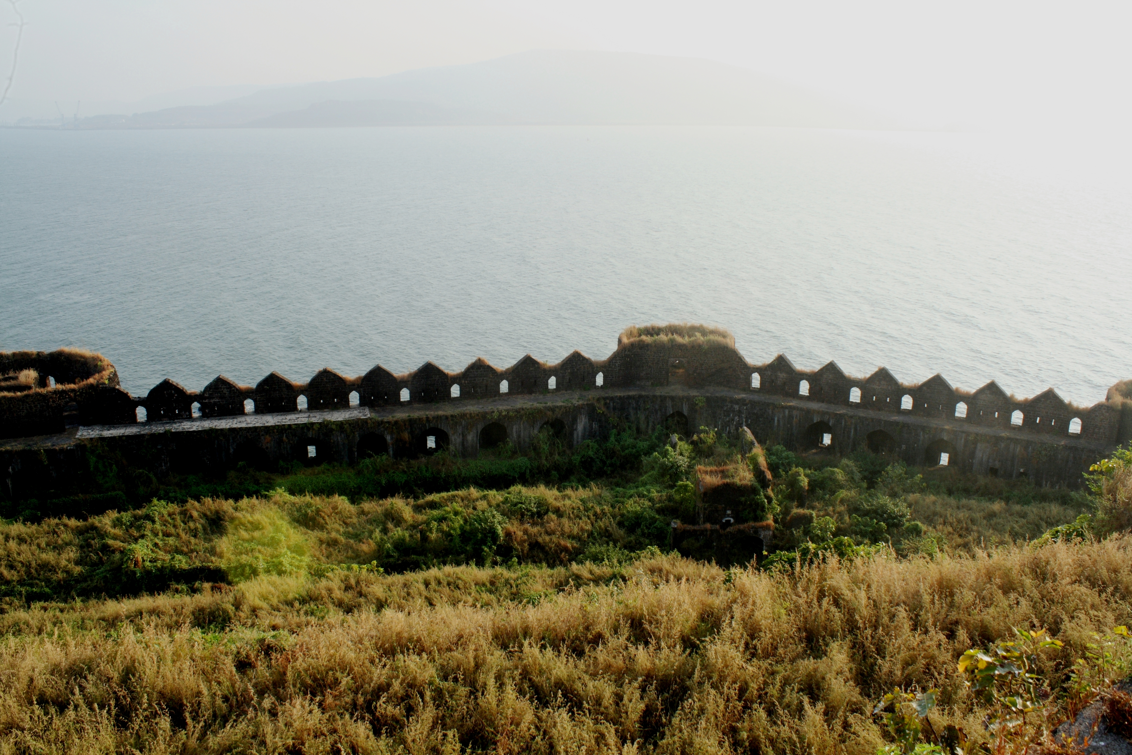 Murud-Janjira is a fort situated on an island just off the coastal village of Murud, in the Raigad district of Maharashtra. Photo by Dr. Raju Kasambe